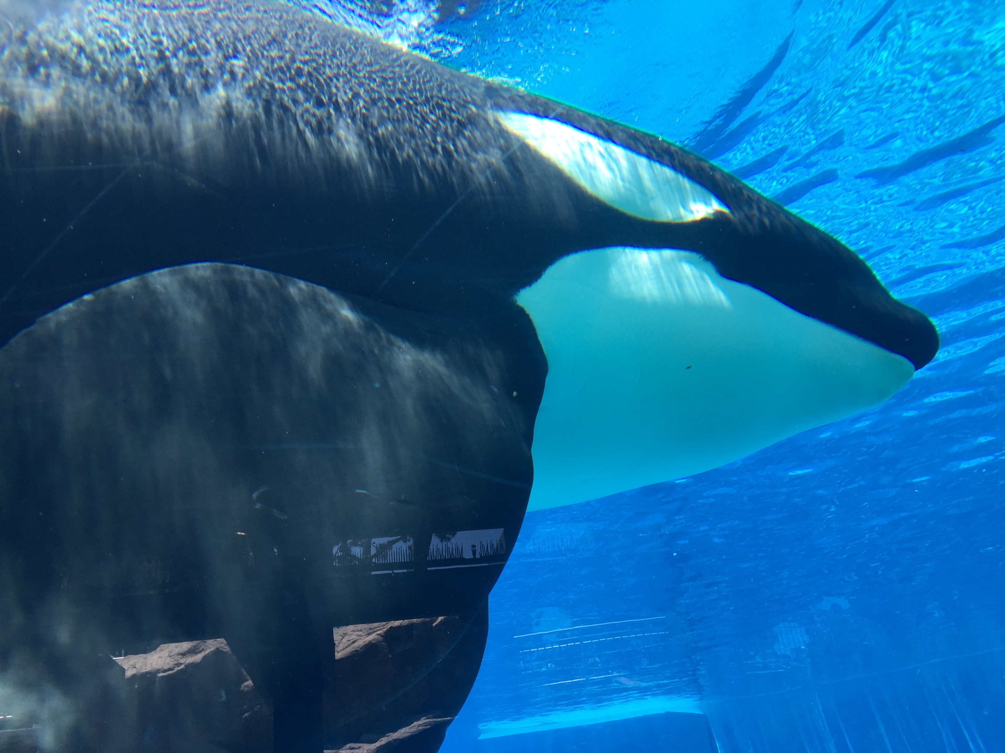 Killer whale swimming.